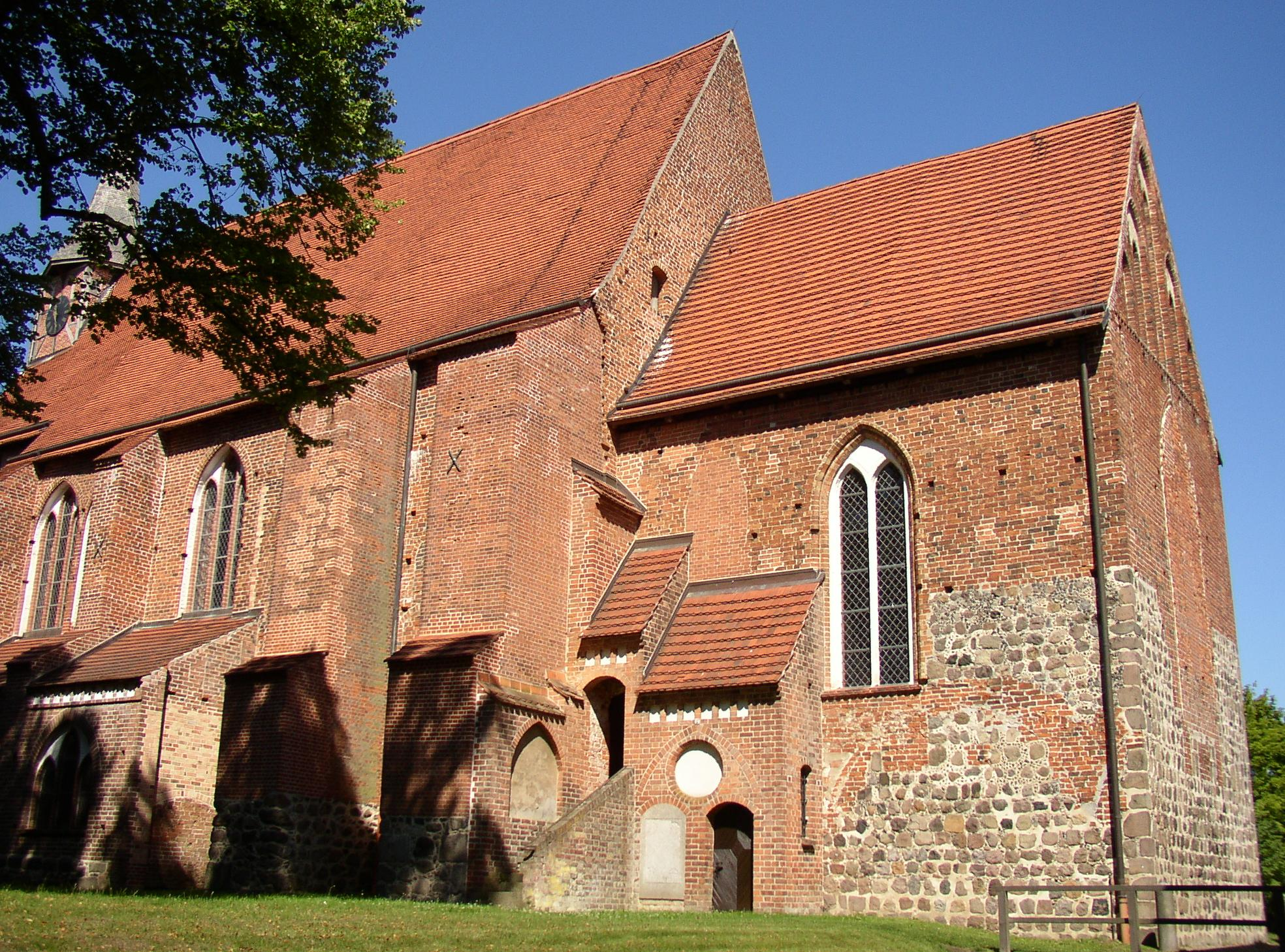 Church in Zarrentin in Mecklenburg-Western Pomerania, Germany